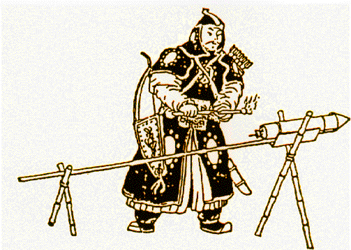 Drawing of an early Mongolian soldier lighting a rocket